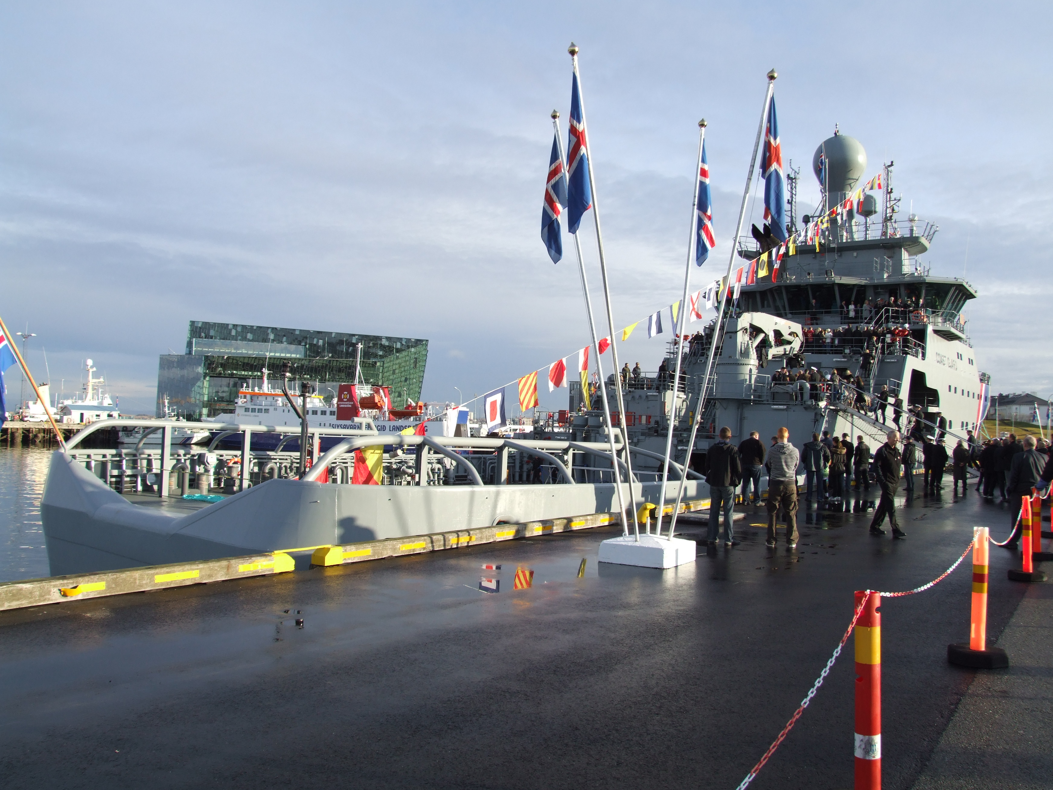 Arrival of Thor - Icelandic Coast Guard 2011-10-27 Reykjavik